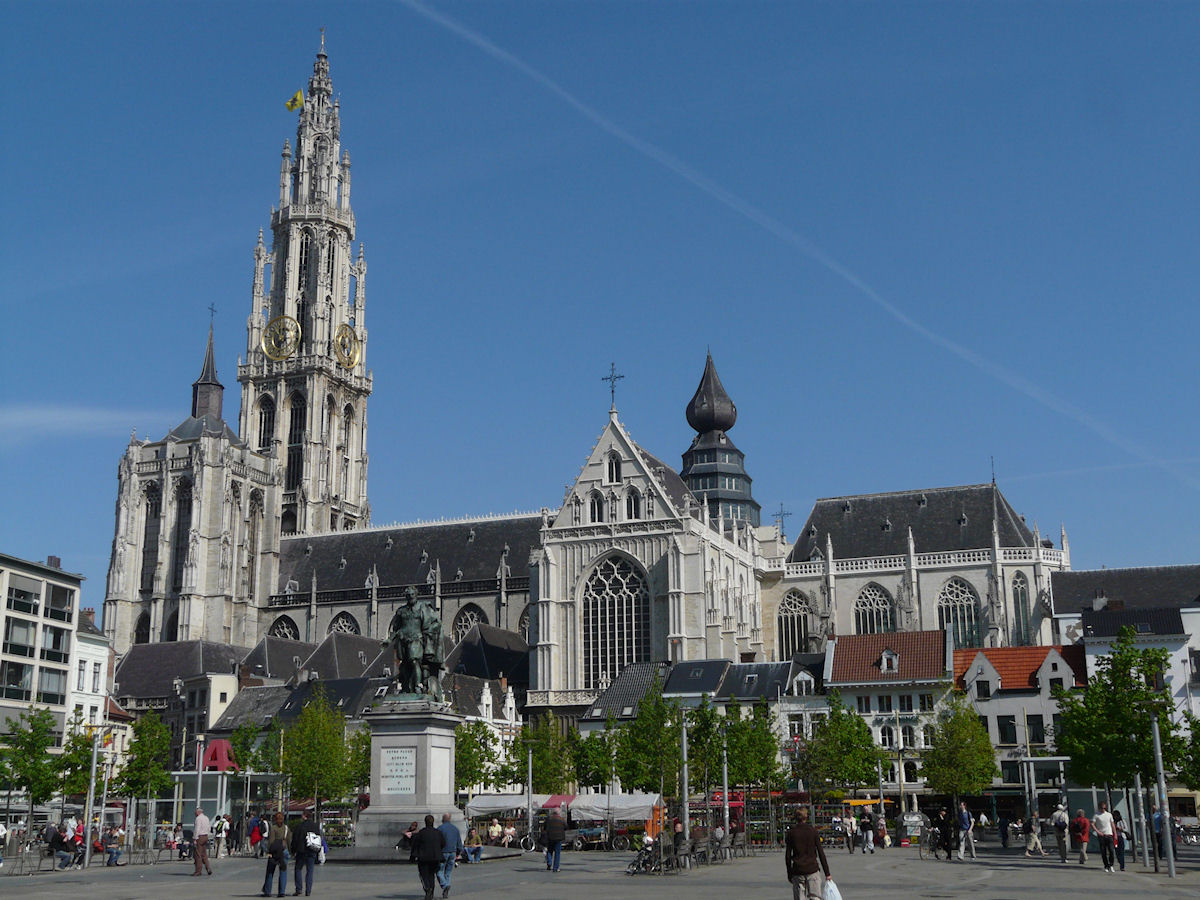 Cathedral of Our Lady, Antwerp, Belgium